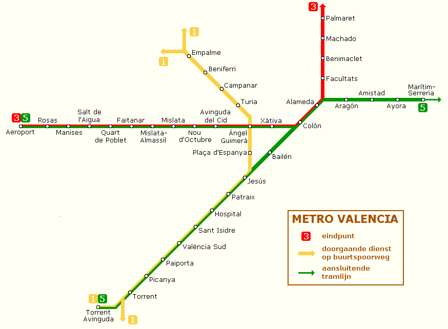 Map of the Valencia metro, Dutch legend